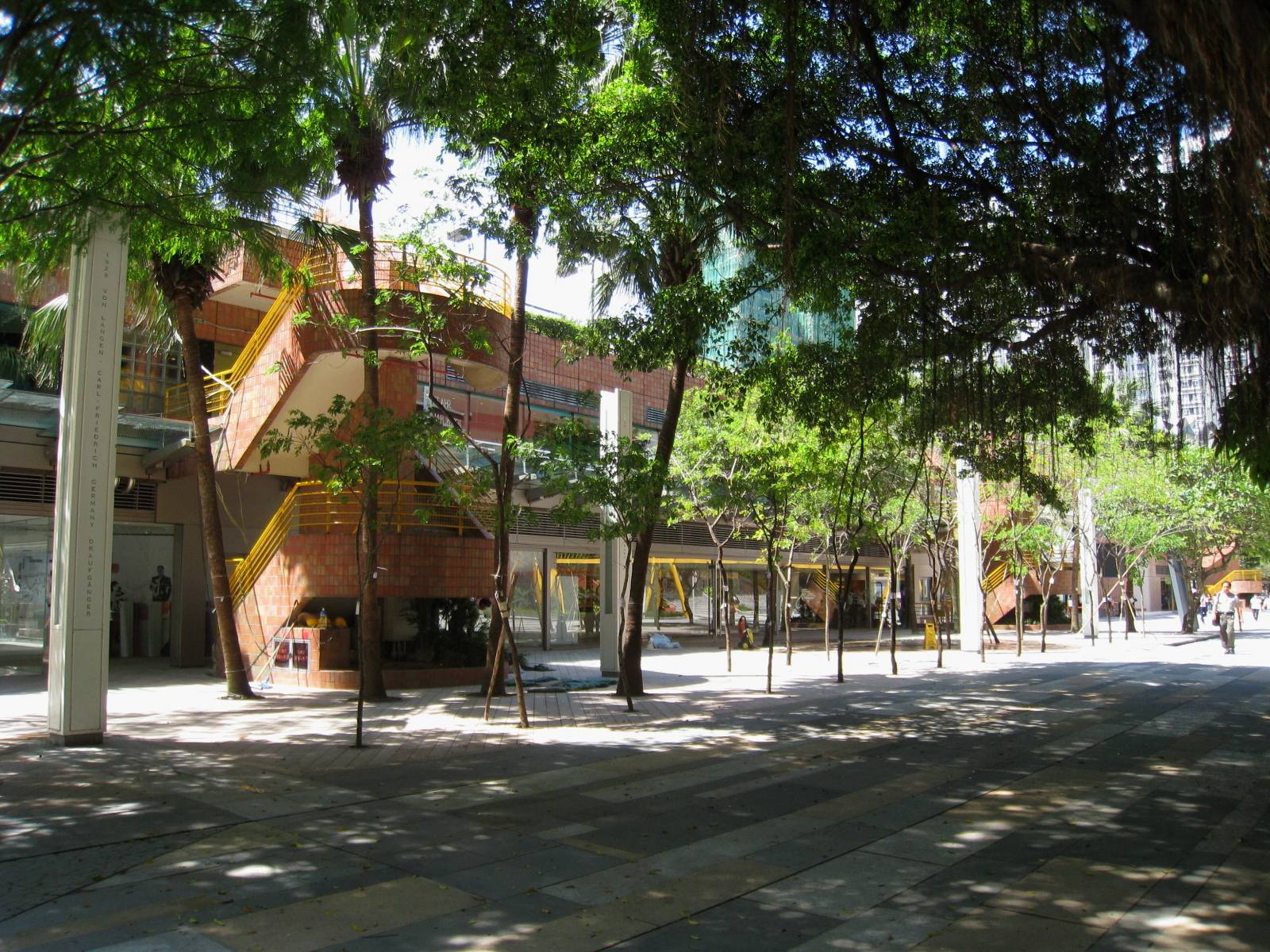 HK City Art Square Area 4 城市藝坊 第四區